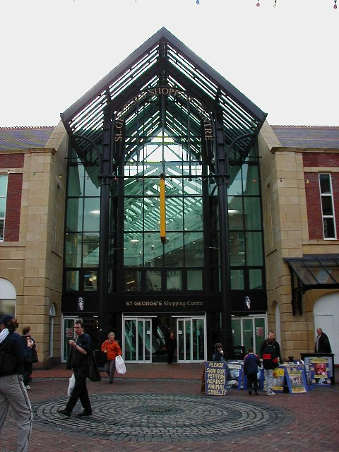 Pedestrian zone in Friargate outside St George's Shopping Centre, Preston, Lancashire, England, in 2002. Later renamed "The Mall", it is one of two main shopping centres in Preston.